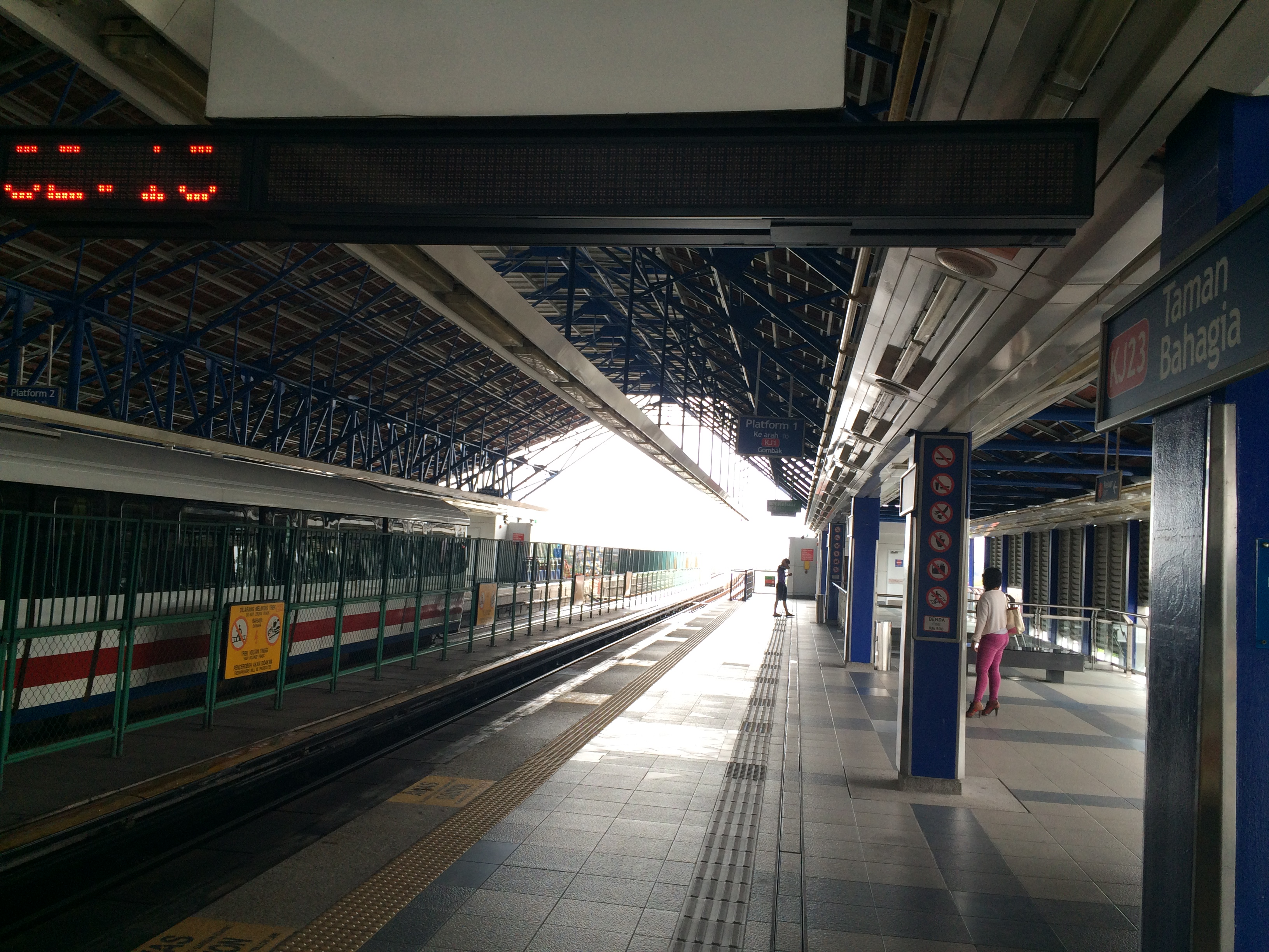 Taman Bahagia LRT - 1